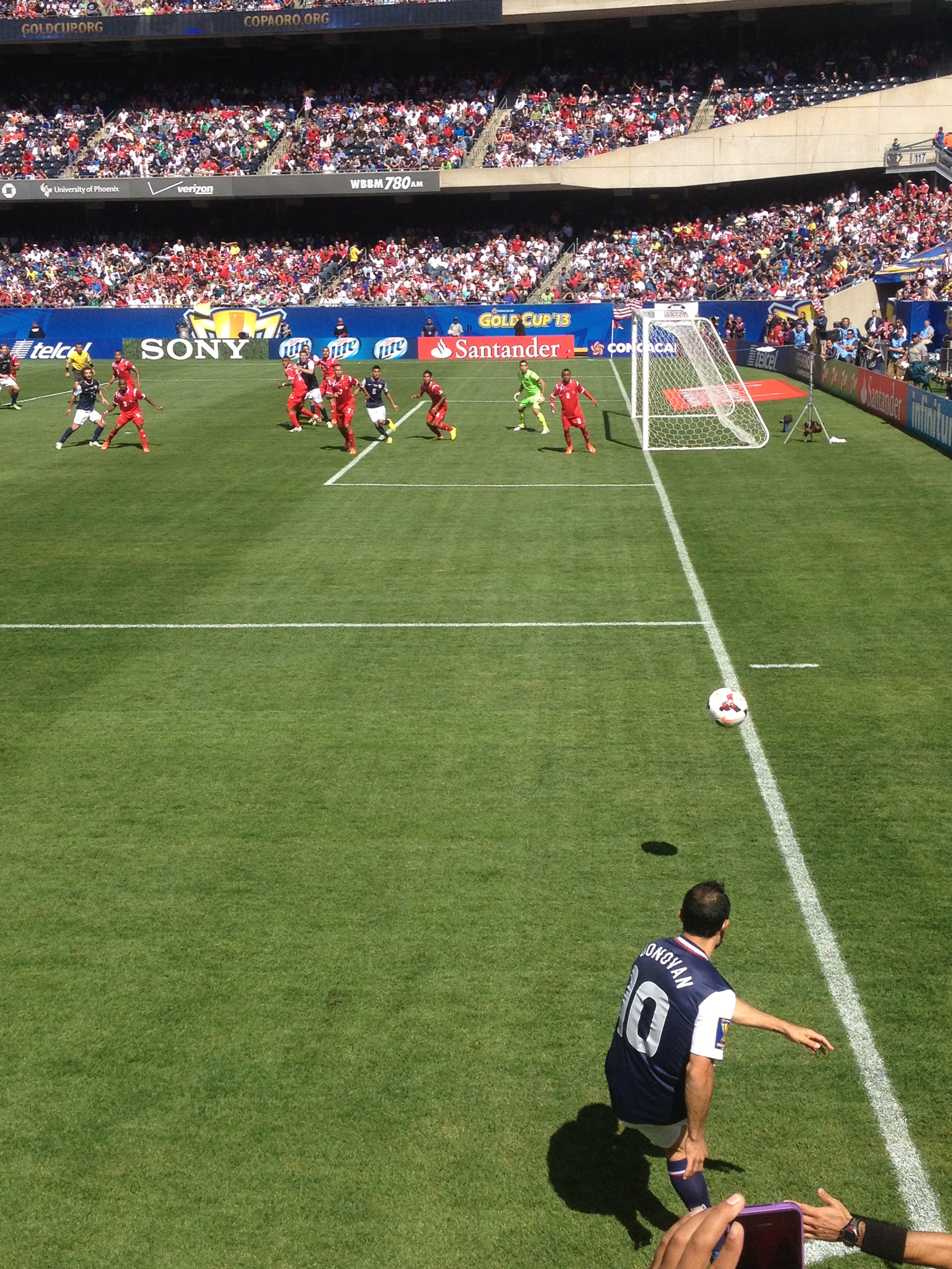 Landon Donovan, USA vs Panama, Gold Cup 2013 final at Soldier Field in Chicago, July 28, 2013